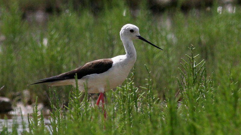 Black-Winged Stilt (Himantopus himantopus)